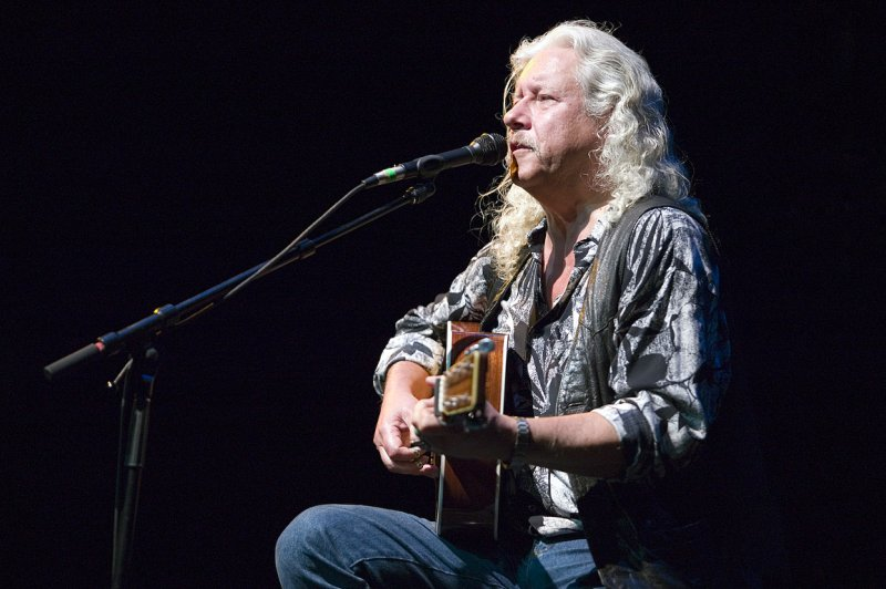 Photograph by John Kloepper, Guthrie Family Tour, Socorro NM, 2MAY07